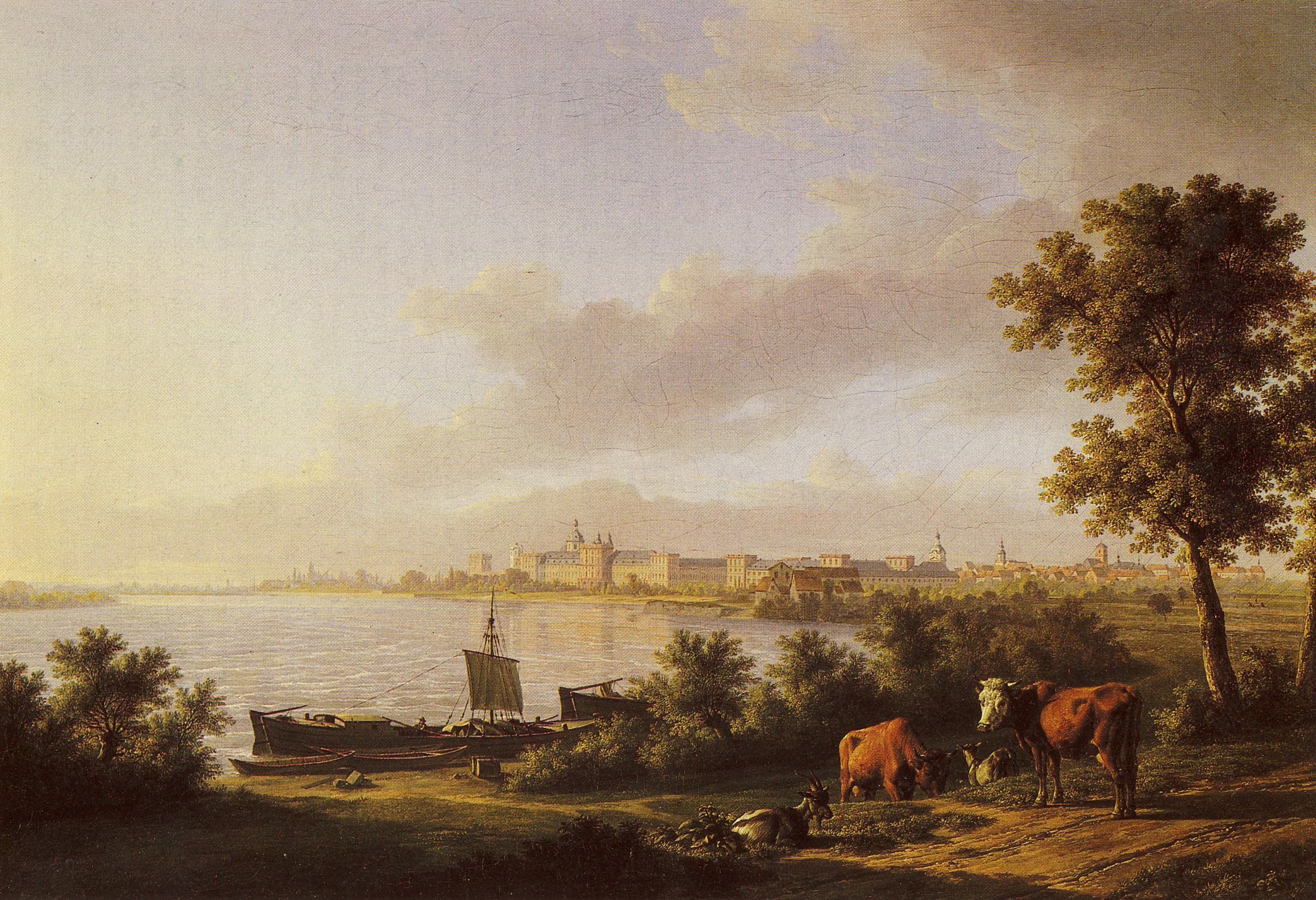 View of Schloss Mannheim from the South (from the river promenade Stephanienufer)